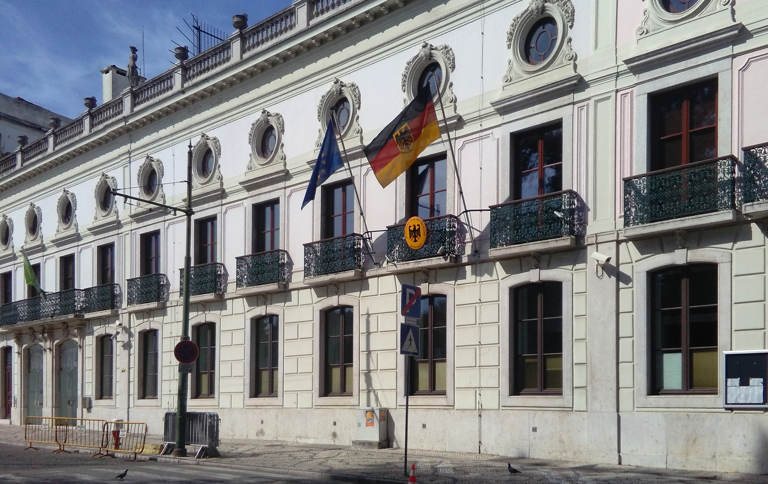 Building of the German embassy in Lisbon, Portugal.